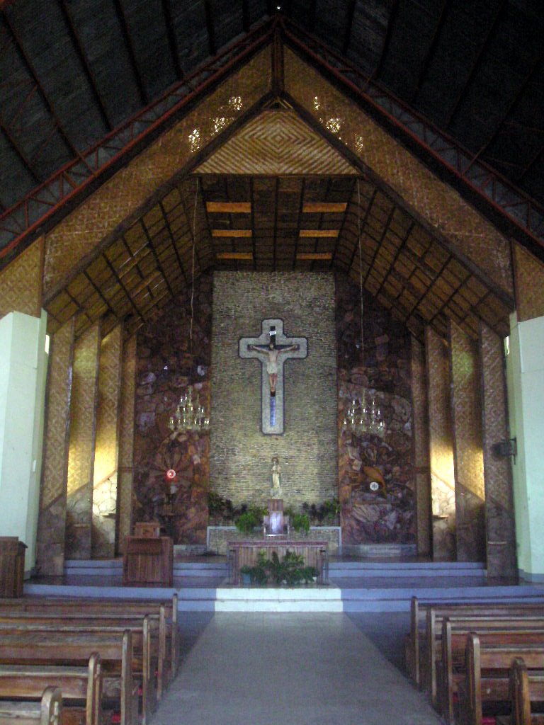 Sagay, Camiguin church: main altar. Olympus Camedia (SWP Mindanao Conference, July 2005). Slightly improved with Picasa.